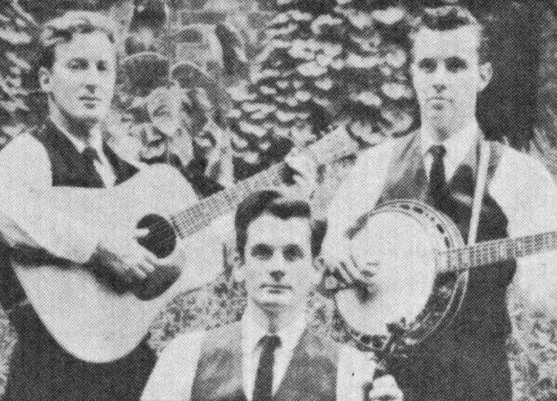 New Lost City Ramblers (no copyright notice could be found anywhere on the original source, thus public domain is assumed)